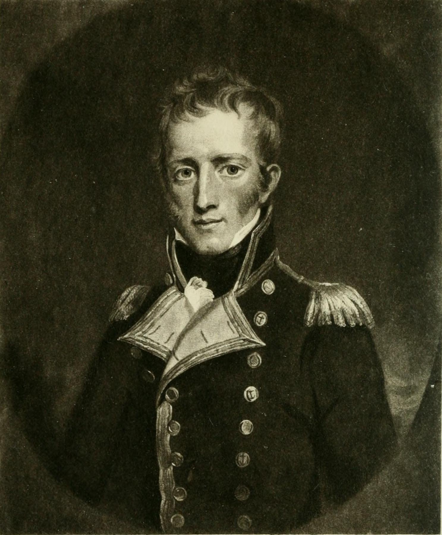 RN Captain Frederick Lewis Maitland (1777–1839).